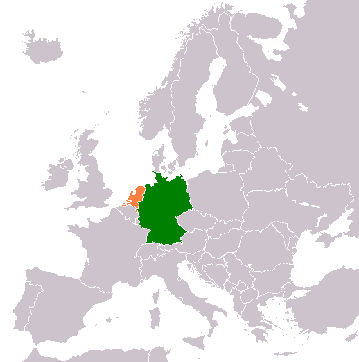 Germany-Netherlands locator map